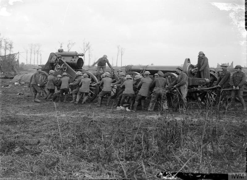 IWM caption : THE BATTLE OF PASSCHENDAELE, JULY-NOVEMBER 1917. Men of the Royal Garrison Artillery (R.G.A.) moving a 9.2 inch howitzer onto its travelling carriage, to move it forward. Wieltje, 5 September 1917. Other photographs in this sequence : File:9.2-inch howitzer at Wieltje Sep 1917 IWM Q 3017.jpg